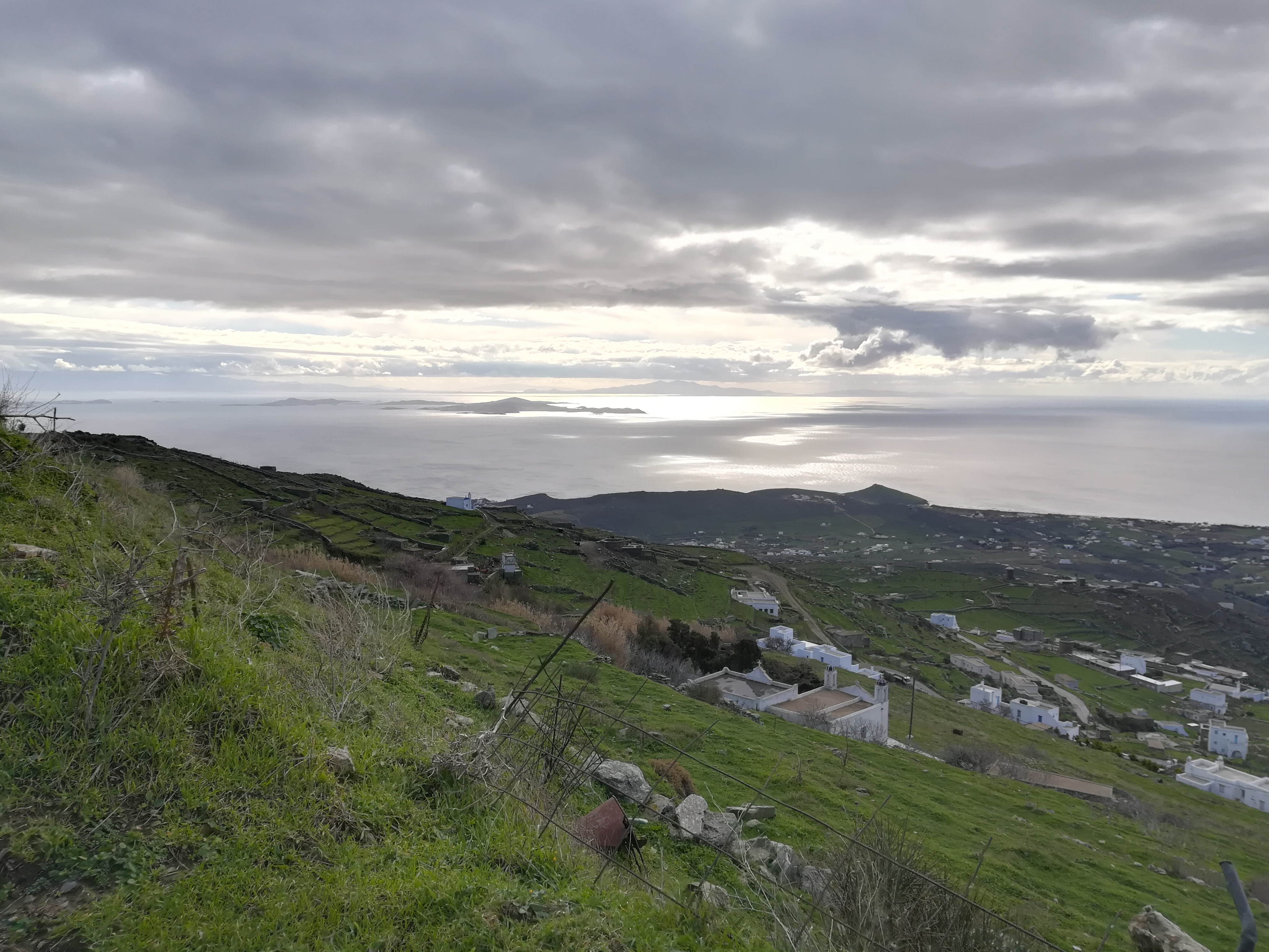 View from Dyo-Choria Tinos Greece (Jan. 2018)